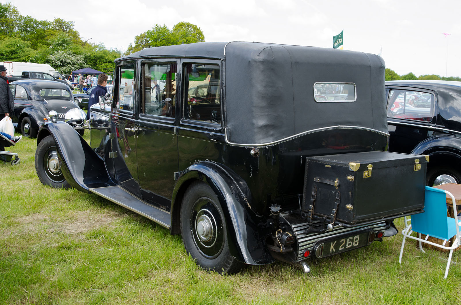 Daimler Straight 8 Salmons Tickford Cabriolet 1936Heskin Hall Steam Fair 02/06/2013